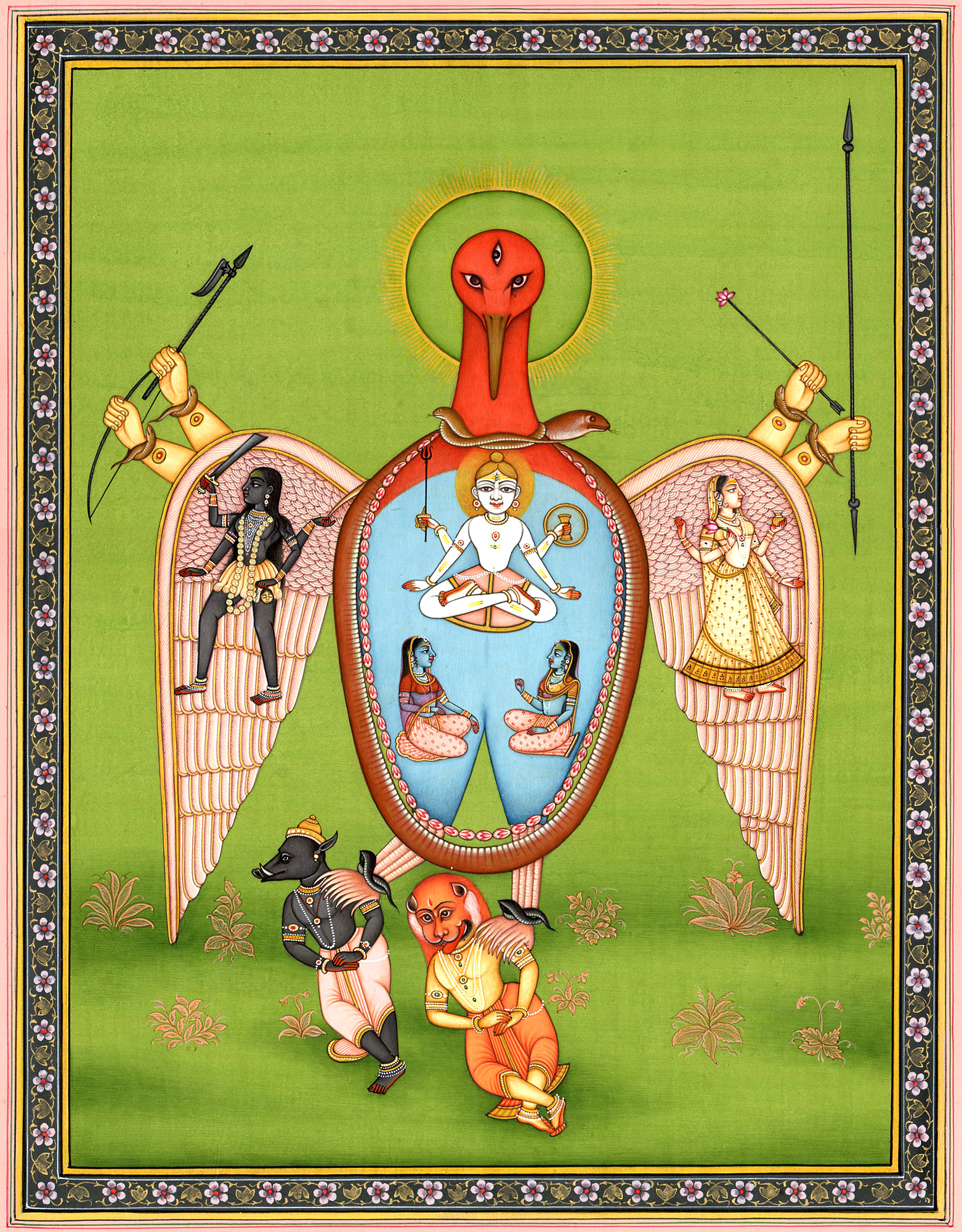 Lord Shiva, Maa Shoolini on Right Wing and Maa Durga on Left Wing